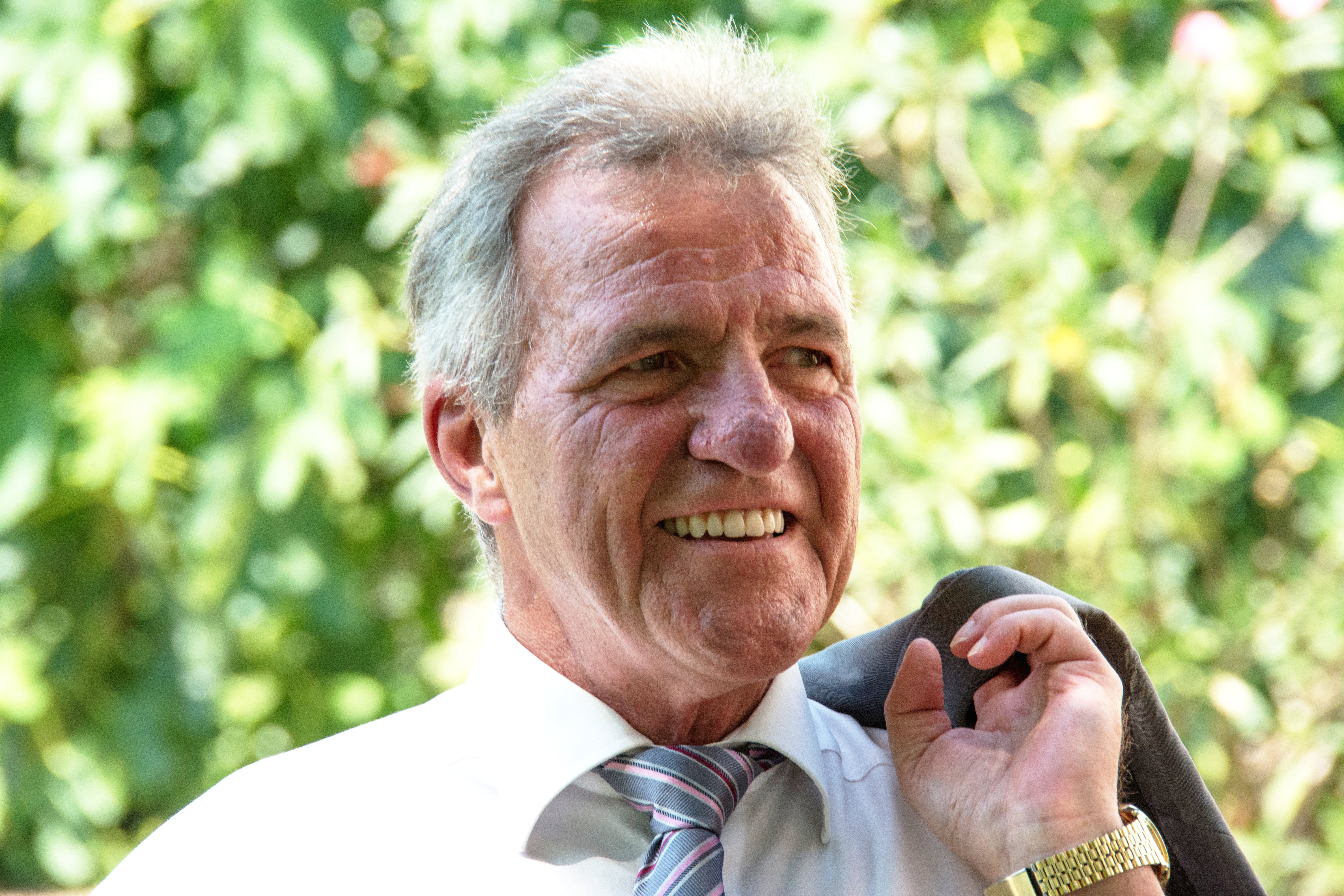 Former professor and rector of the Pädagogische Hochschule Schwäbisch Gmünd, Hans-Jürgen Albers